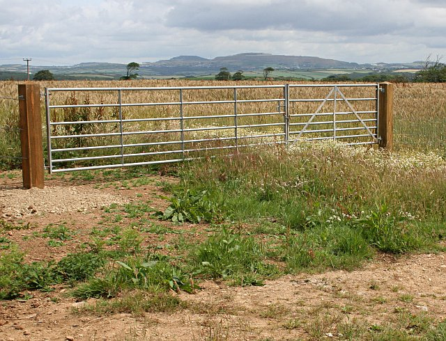 Wheatfield behind a modern gate. A section of the normal hedgebank has been removed here and a large gate installed a little way into the field. Perhaps this gives more room for agricultural machinery to move on and off the field without churning the ground too much and trailing dirt onto the road. The hills in the distance are The St Austell granite and huge spoil heaps from the china clay industry.